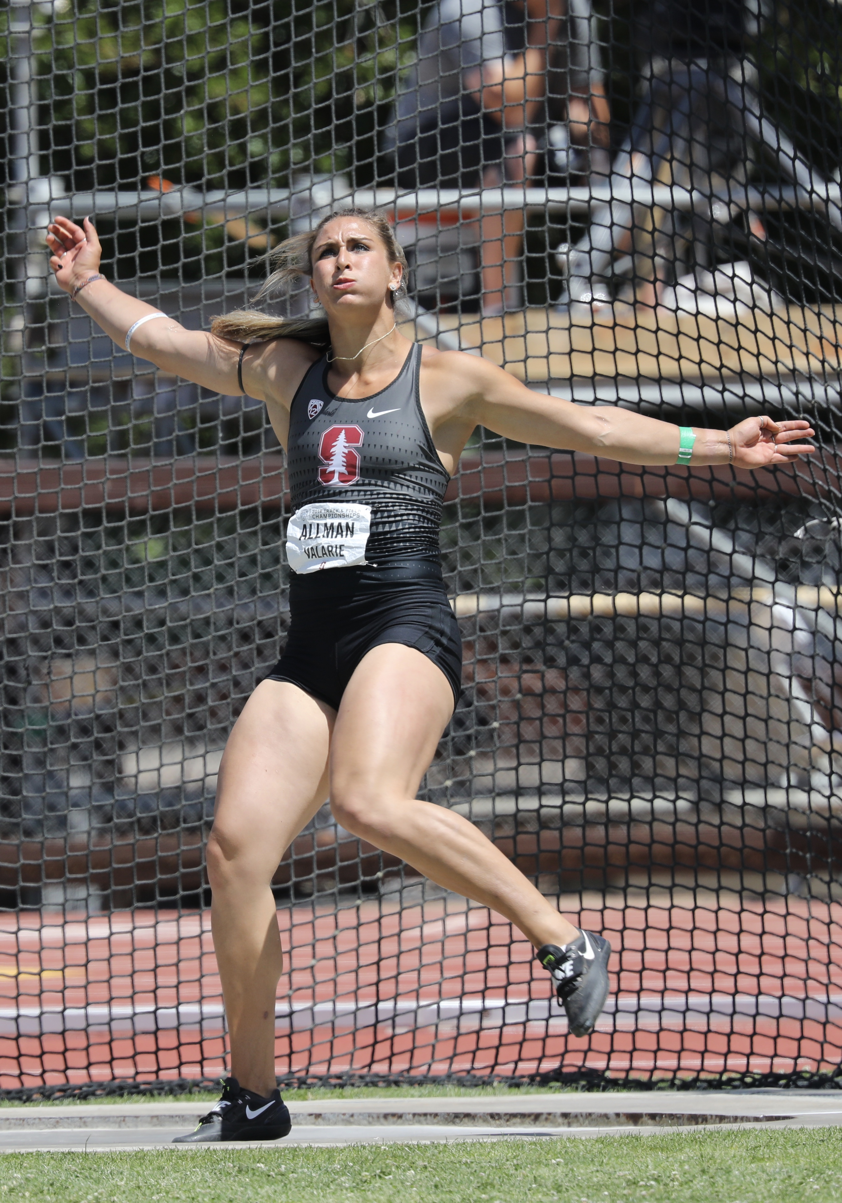 Valarie Carolyn Allman (born February 23, 1995) is an American track and field athlete specializing in the discus throw